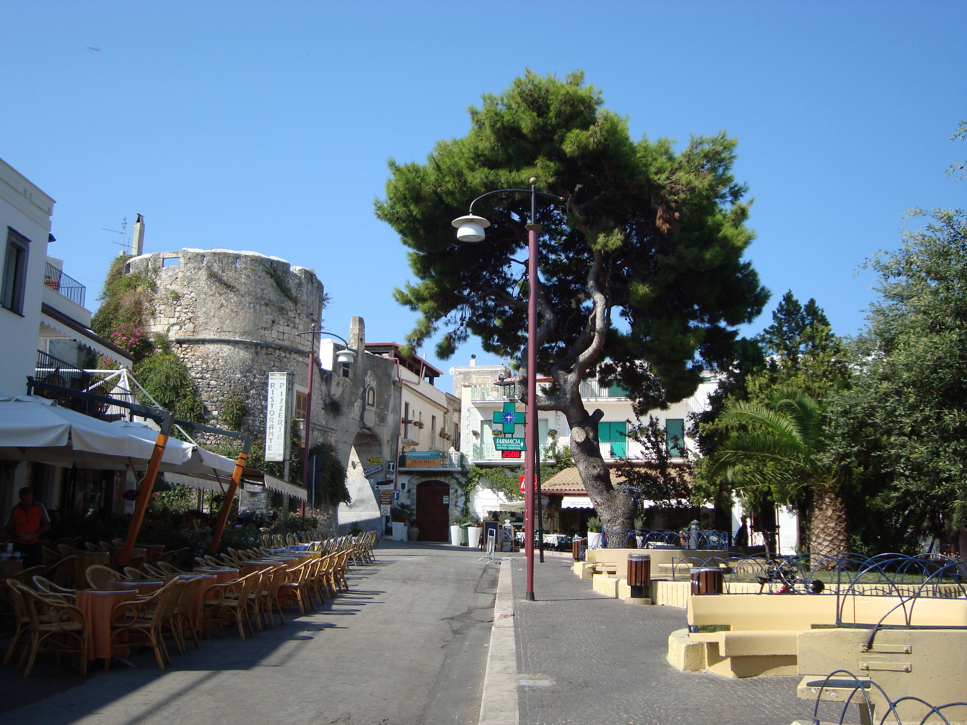 Peschici's antic walls